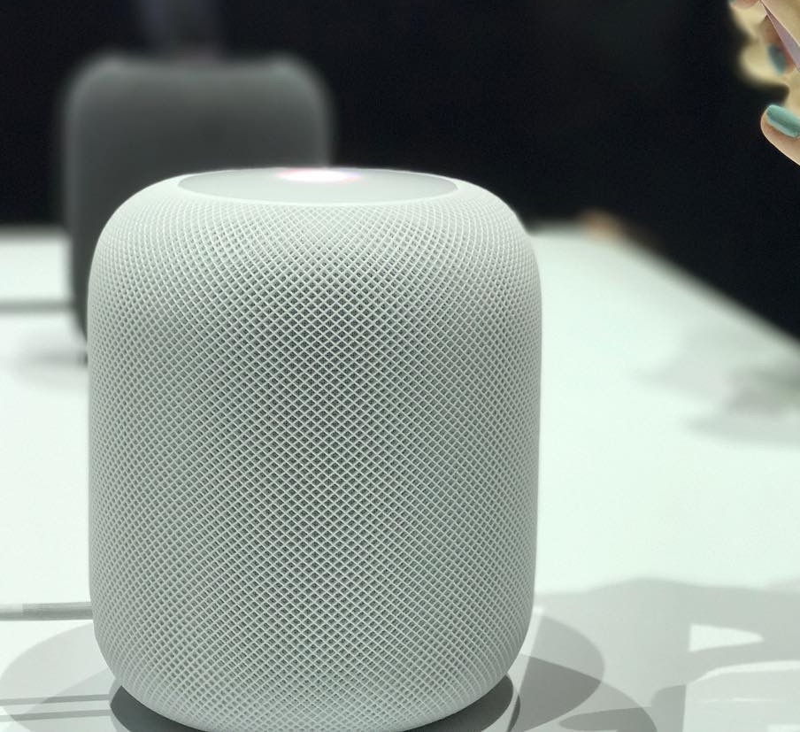 The HomePod smart speaker by Apple in white on display at WWDC 2017.